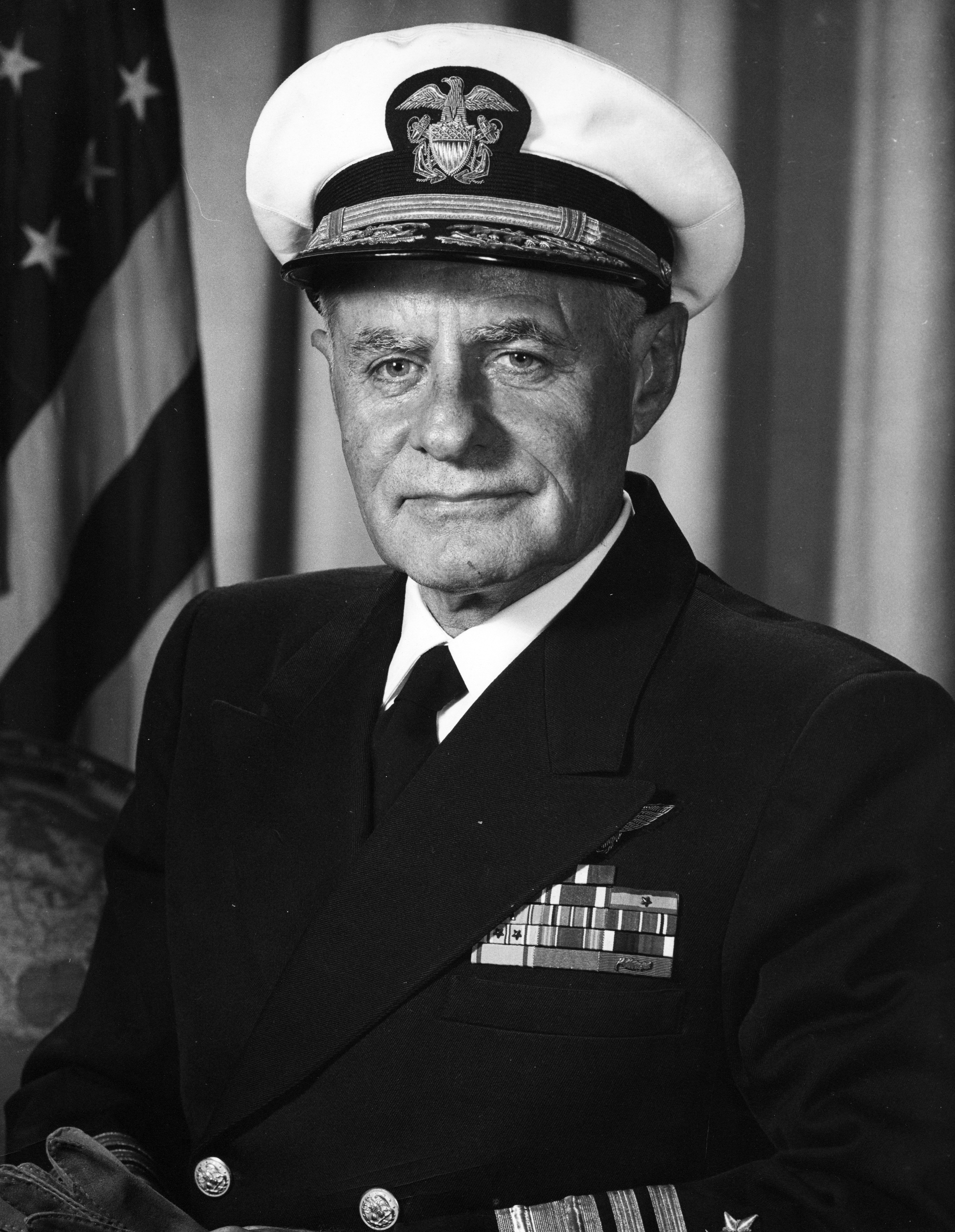 Vice Admiral Wallace M. Beakley as Commandant of the First Naval District, 1963